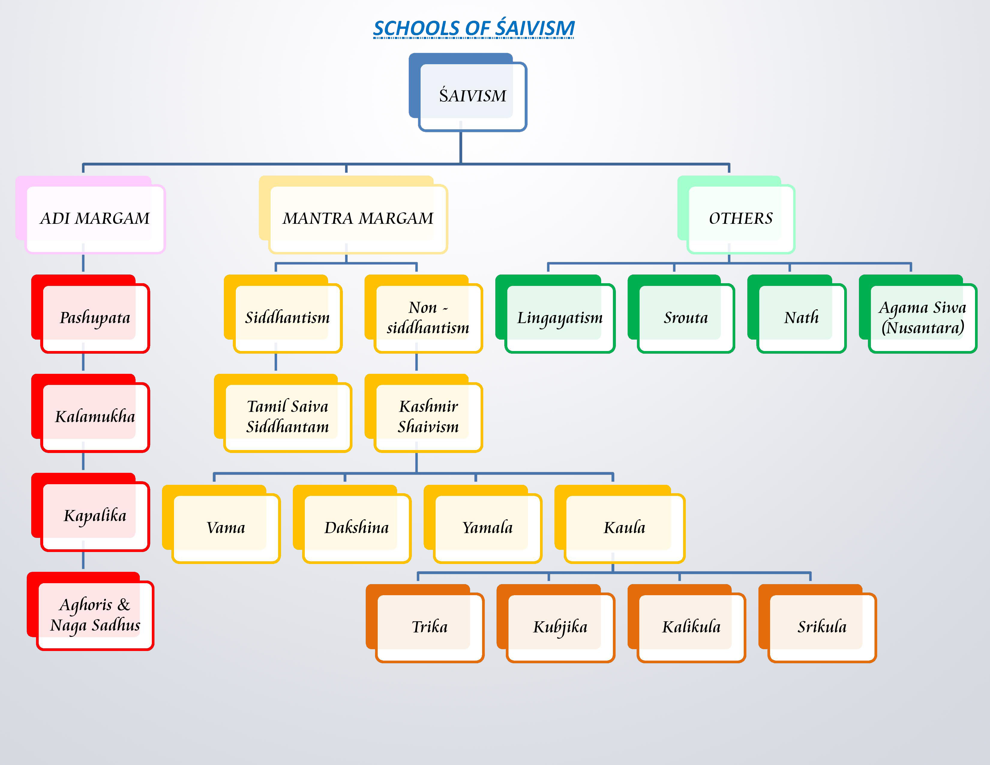 Modified from the works of Alexis Sanderson. Usually Mantrapitha of Kaula tantras are considered as Saivite sects while Vidyapitha of the same, evolved into Shaktism sects.